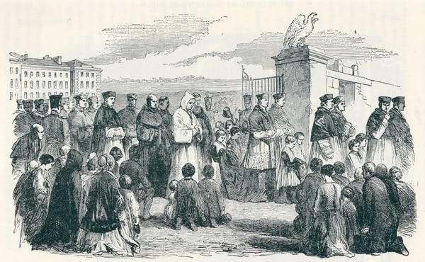 Clergy processing to the Synod of Thurles